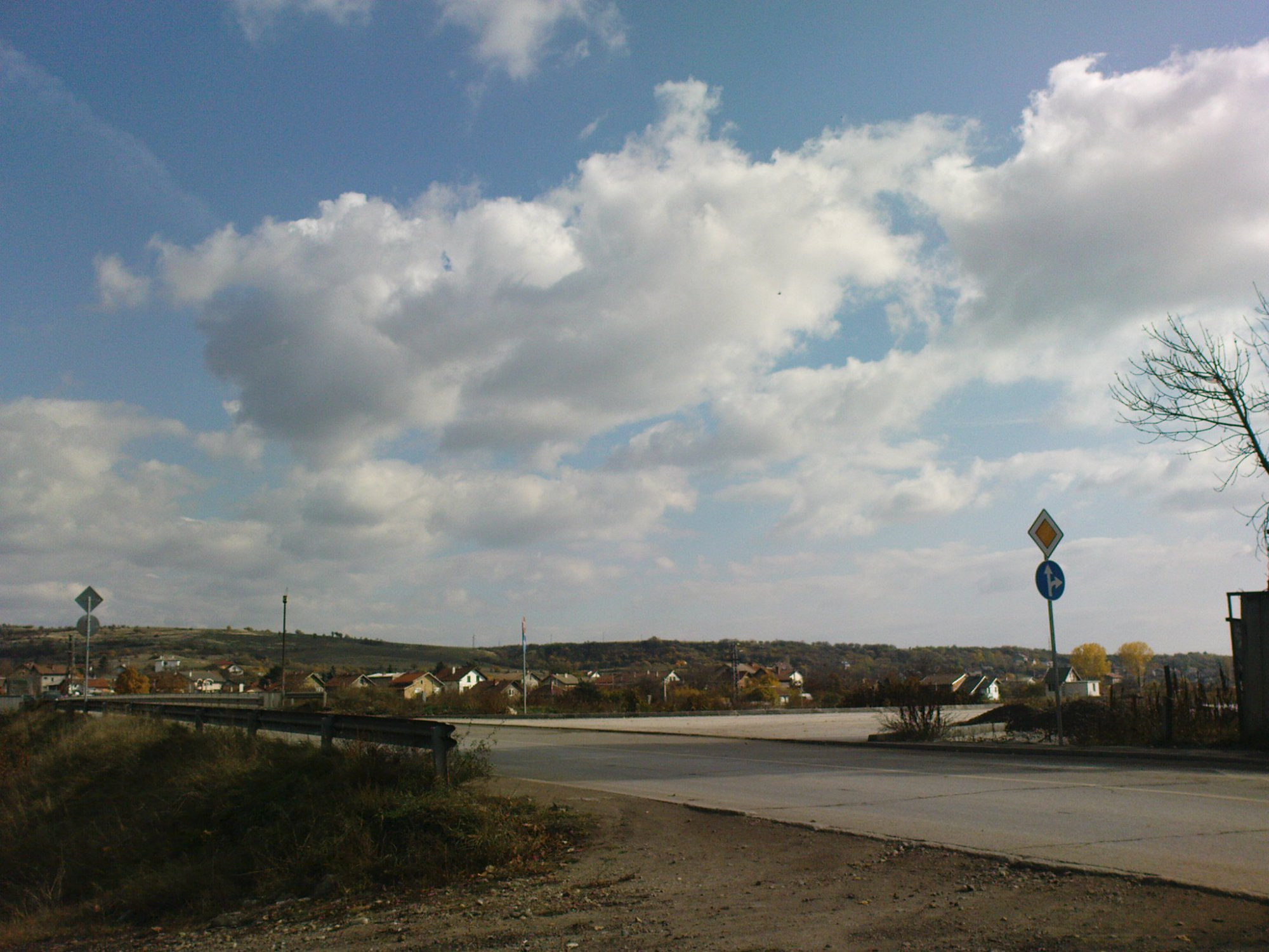 Town of Novi Iskar, Izgrev district